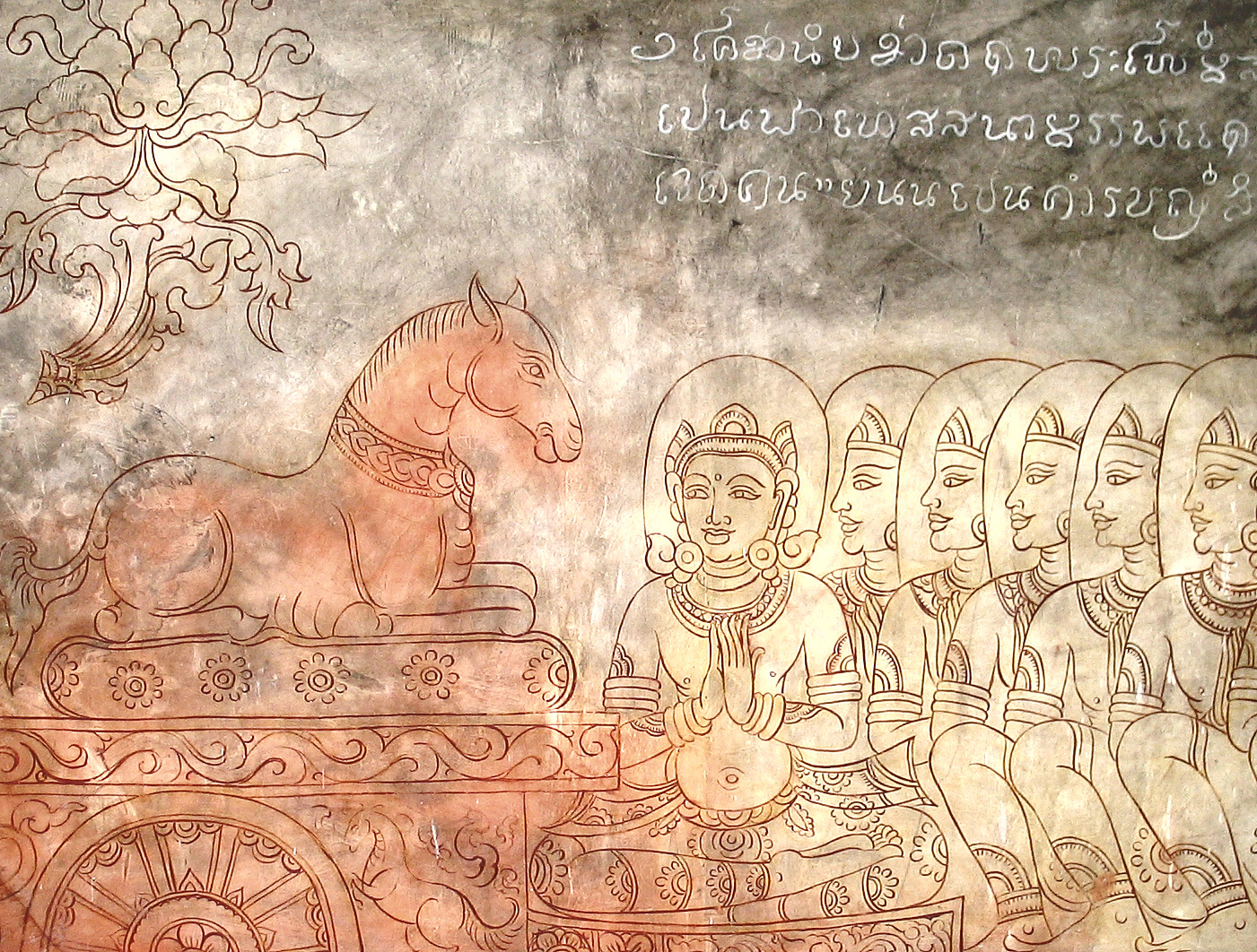 14th century jataka engravings, original in Wat Si Chum (this pic: replica in Mueang Boran, Bangkok) Sukhothai, Thailand.